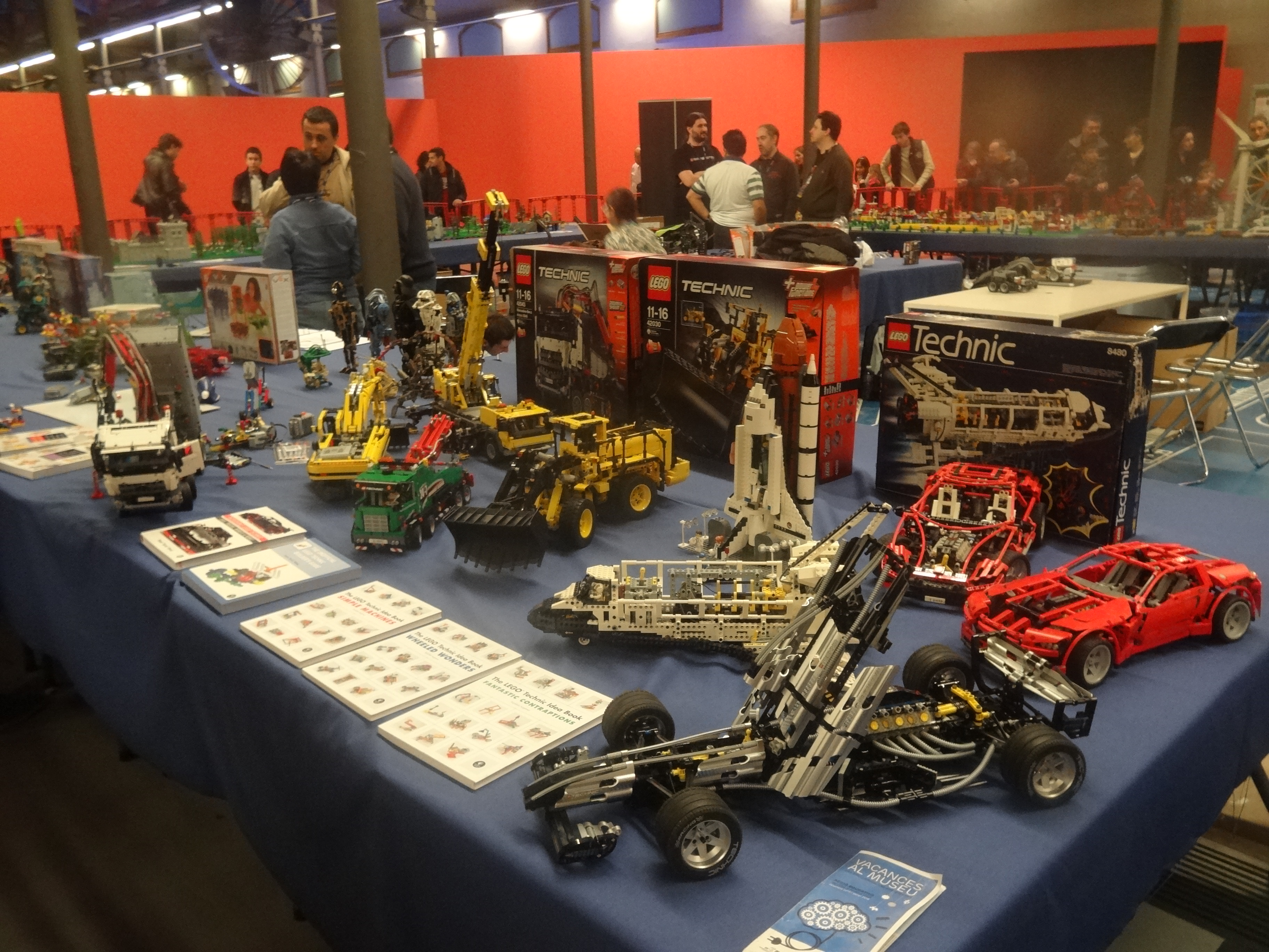 Meeting of fans of LEGO constructions organized by HispaBrick Magazine at the Museu Nacional de la Ciència i de la Tècnica de Catalunya (mNACTEC) in Terrassa, on 5-6th December 2015